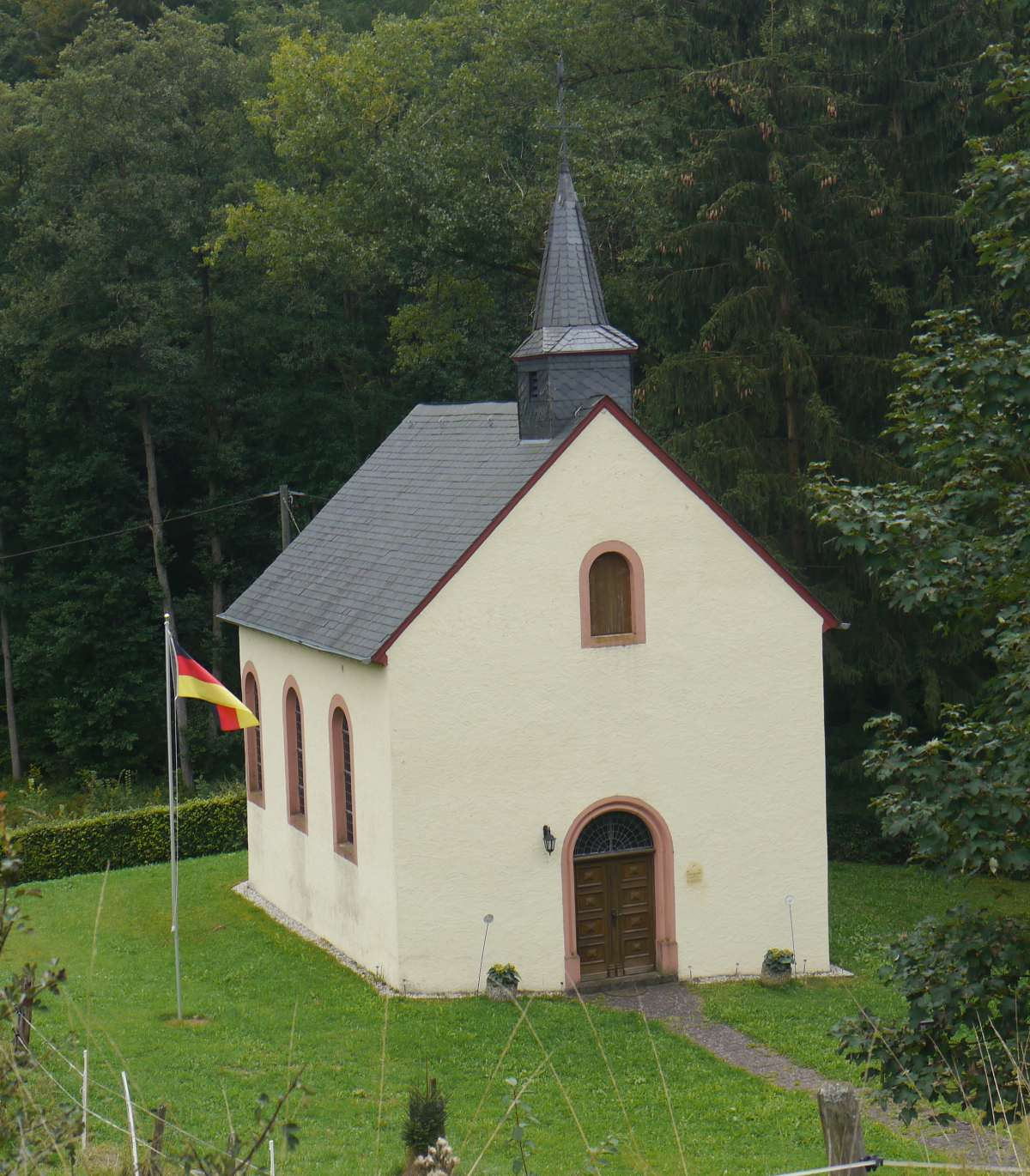 Walleschkapelle im Dürrbachtal